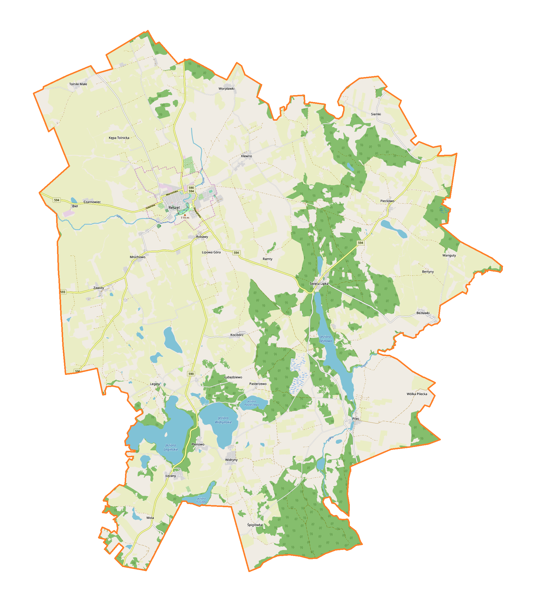 Location map